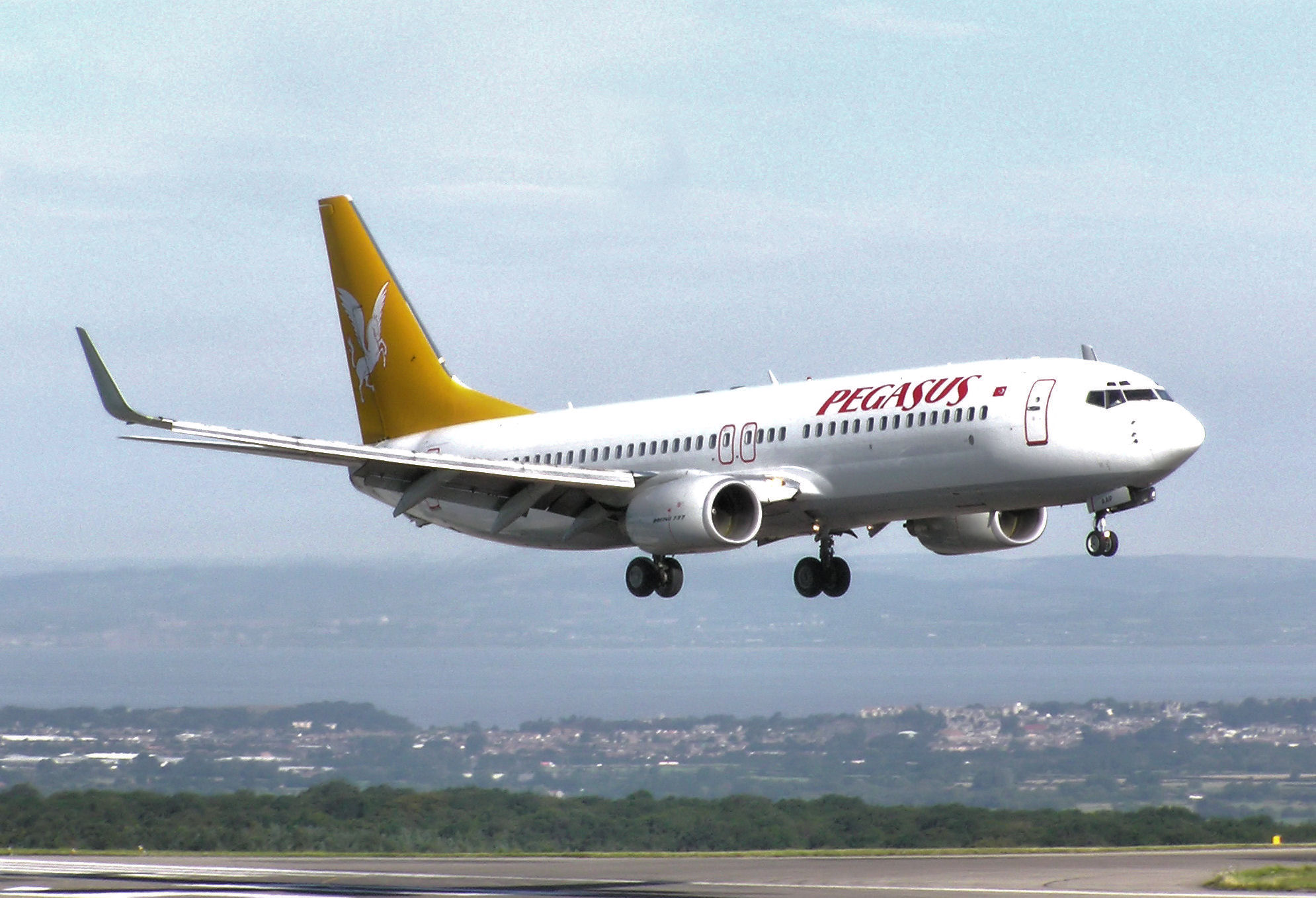 Pegasus Airlines Boeing 737-800 (Turkish registration TC-AAP) lands at Bristol International Airport, Bristol, England.